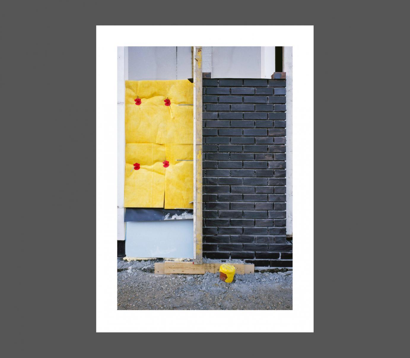 Site photography by Ulrich Hensel, Düsseldorf, Färberstraße, II, 2007, 180 cm x 242,6 cm, C-Print Diasec